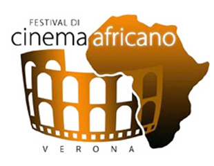 Logo of the Festival di Cinama africano di Verona.